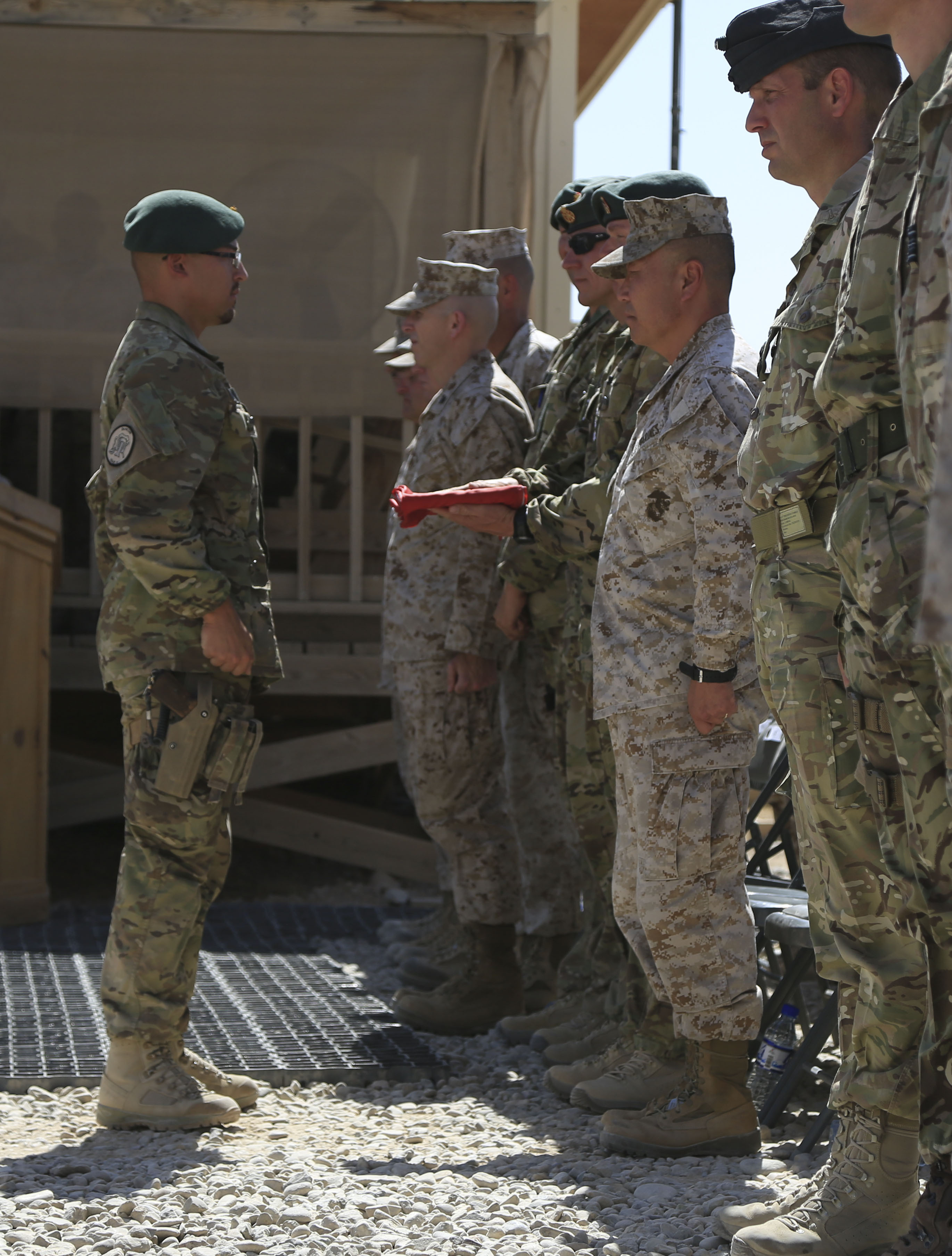 Danish soldiers, part of the Danish Contingent International Security Assistance Force 17 (DANCON ISAF-17), participate in the Flag Lowering Ceremony aboard Camp Leatherneck, Helmand province, Afghanistan, July 21, 2014. The lowering of the Danish flag over Camp Leatherneck formally concludes the county's participation in RC(SW). (Official U. S. Marine Corps photo by Sgt. Dustin D. March/Released) Unit: Regional Command Southwest DVIDS Tags: home; tour; ceremony; NATO; Camp Pendleton; camp; international; deployed; coalition forces; village; desert; USMC; boots; leaving; flag pole; sky; attention; coalition; Europe; oef; ground; United States Marine Corps; danish; forces; force protection; brigadier general; depart; end; II Marine Expeditionary Force; leave; I MEF; I Marine Expeditionary Force; camp leatherneck; Afghanistan; Combat Camera; rifle; II MEF; Helmand province; Camp Lejeune; redeploy; joint operations; army; flag; training; teamwork; ANA; joint task force; war on terror; deployment; leatherneck; operation enduring freedom; lower; U.S. Marine Corps; end of mission; RC(SW); Regional Command (Southwest); complete; sad; happy; Georgian; sun; boot; thankful; helmand; Maintainence; lowering; flag-lowering ceremony; dancon-17; laces